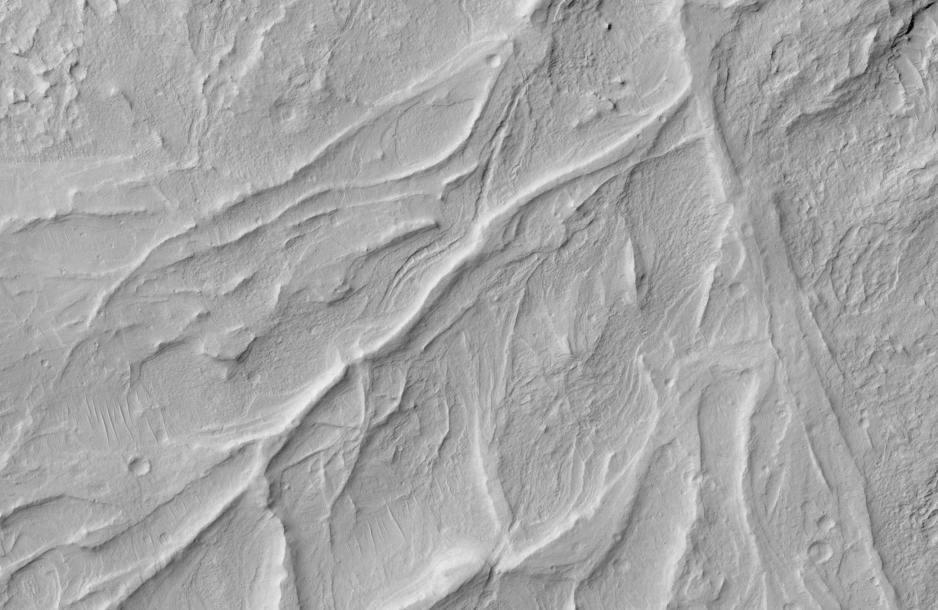 Sinuous ridges in medusae formation, as seen by hirise. Location is 4.7 S and 154.9 E.